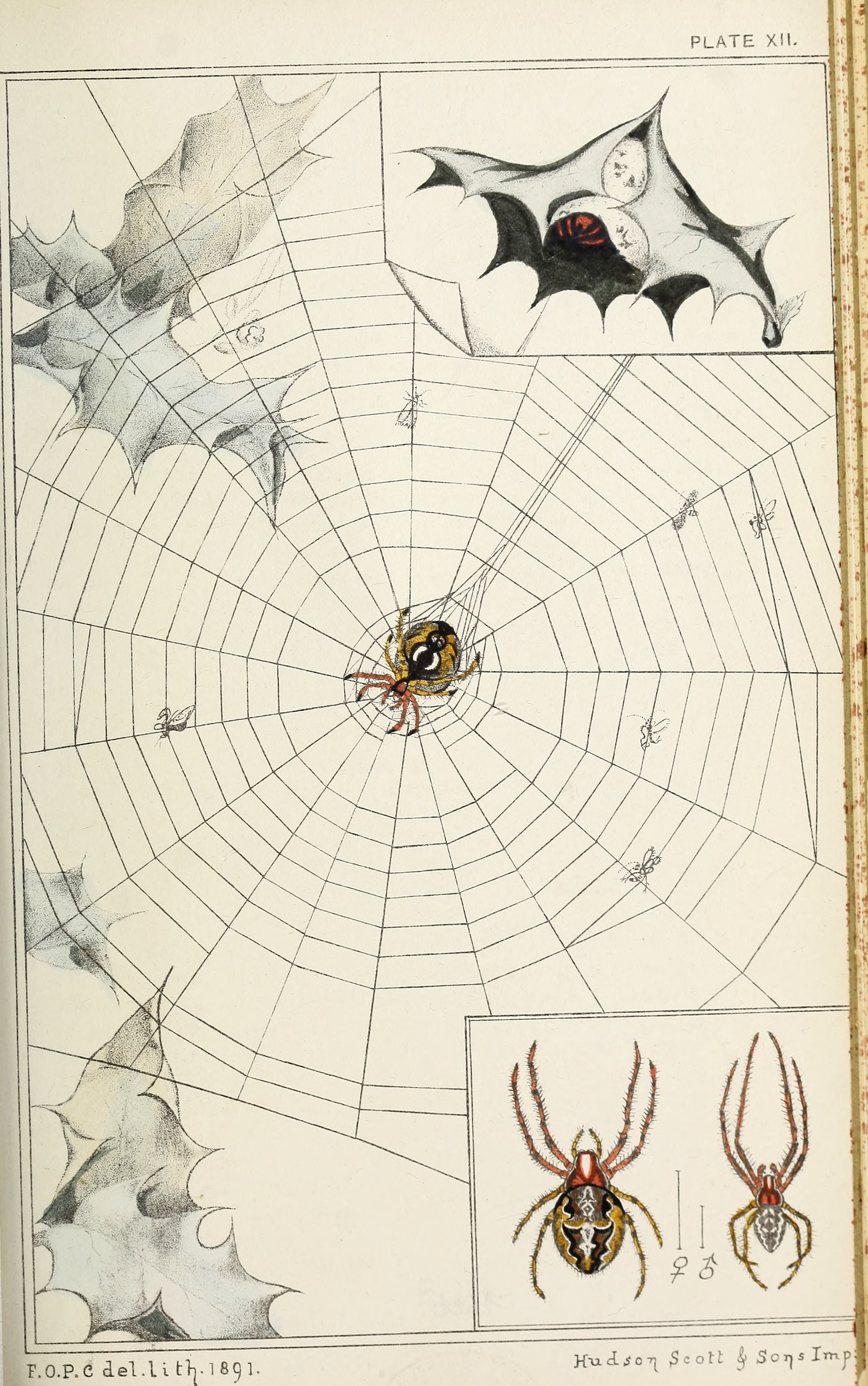 Title: Epeira patagiata now known as Larinioides patagiatus from British Naturalist Year: [1] (s) Authors: Subjects: Publisher: London Text Appearing Before Image: ' Text Appearing After Image: '